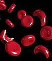 Sickle cells characterize sickle cell anemia, an autosomal recessive genetic disorder.